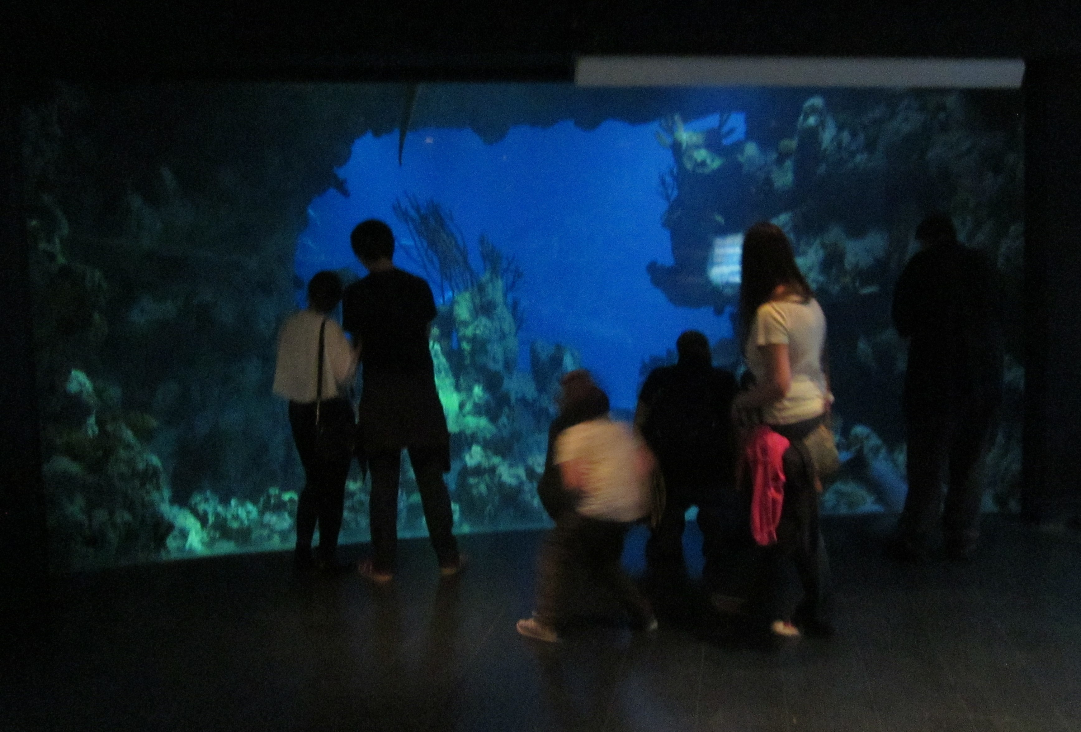 People looking into a large aquarium at The Deep, Kingston upon Hull